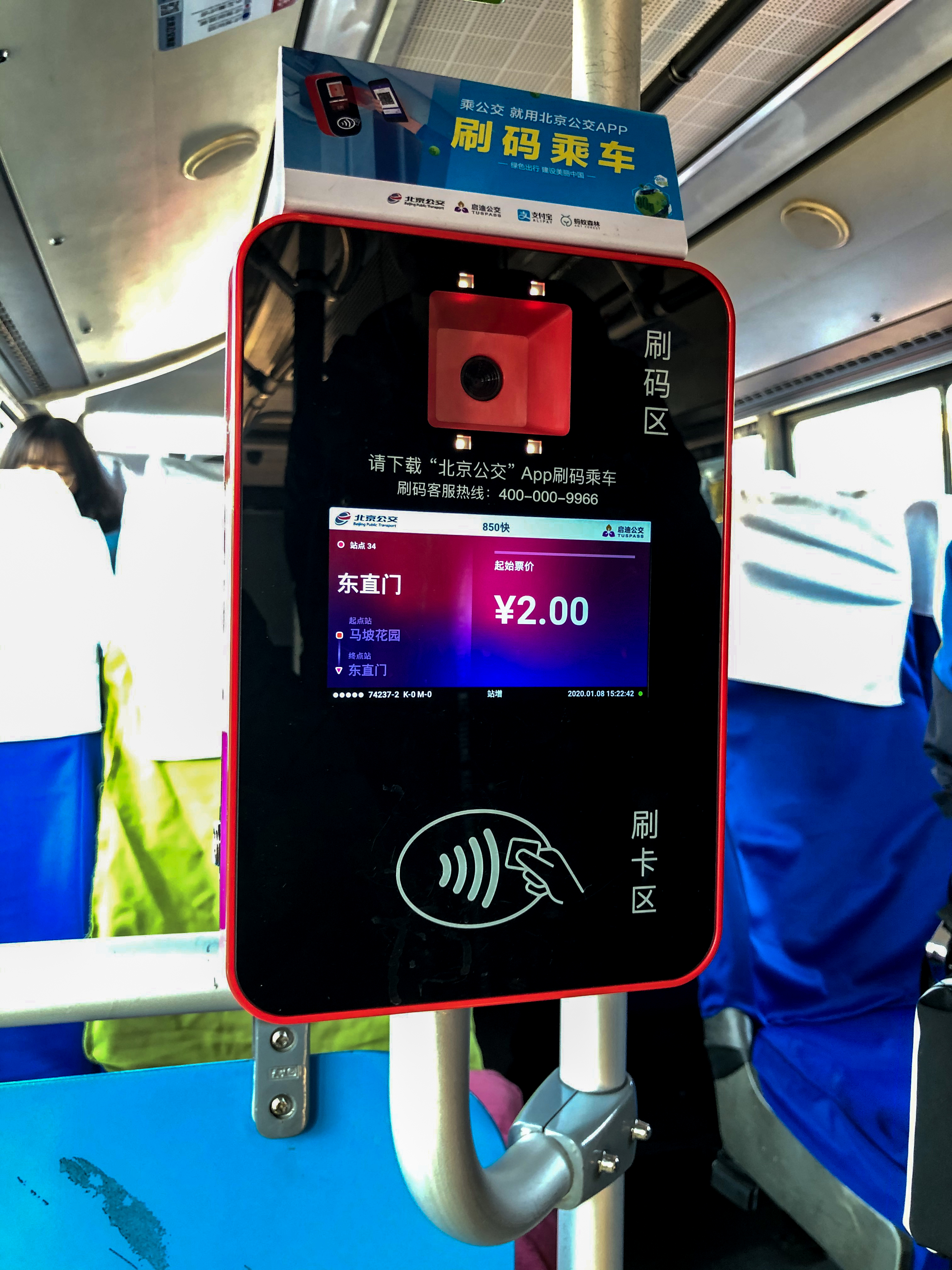 The screen gave away information including fleet number and miscellaneous.